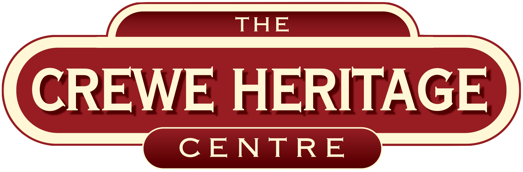 Logo for the Crewe Heritage Centre